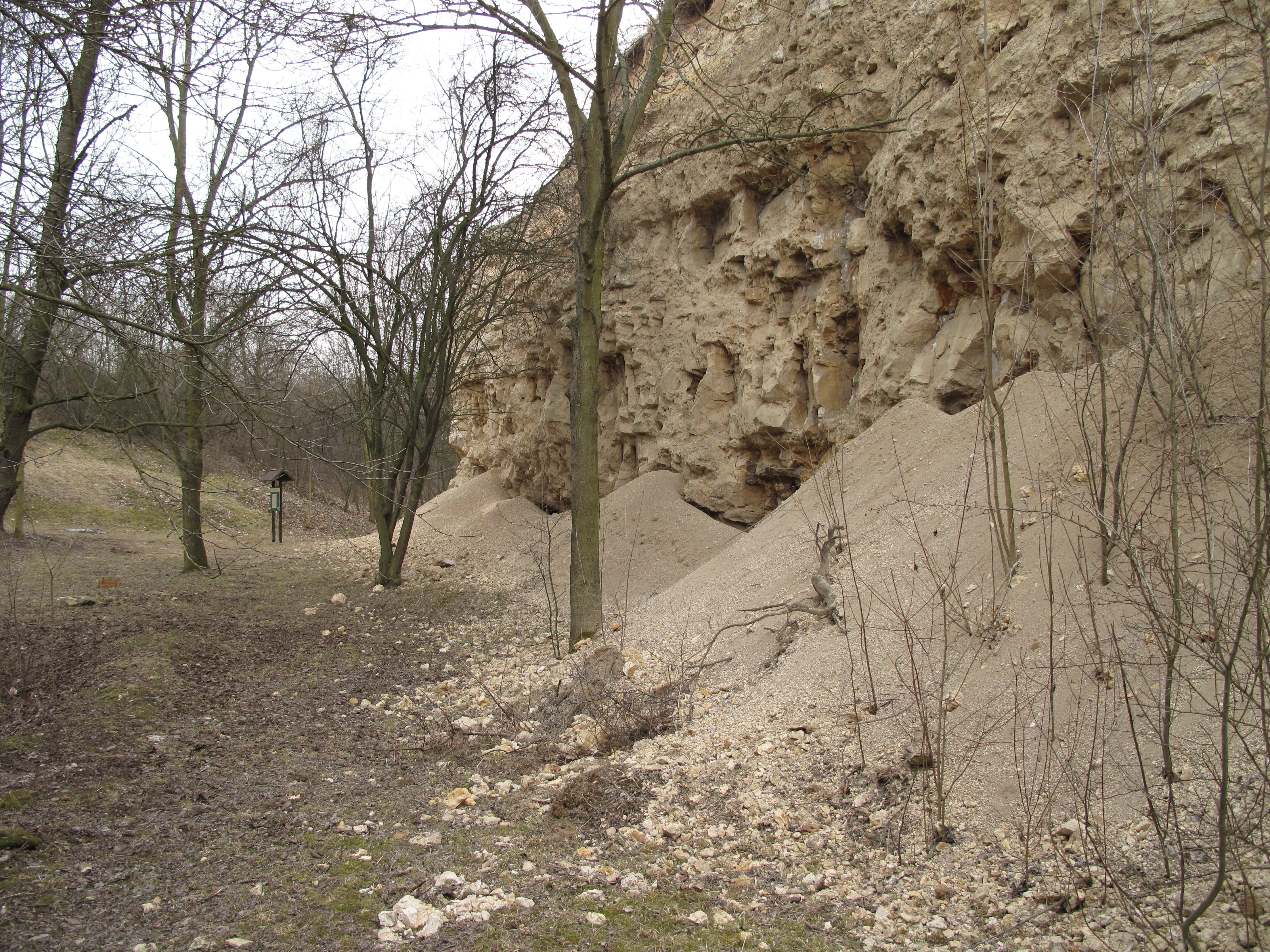 Natural monument "Miocenní sladkovodní vápence" (Miocene freshwater limestones) near Tuchořice village, Louny District, Czech Republic.